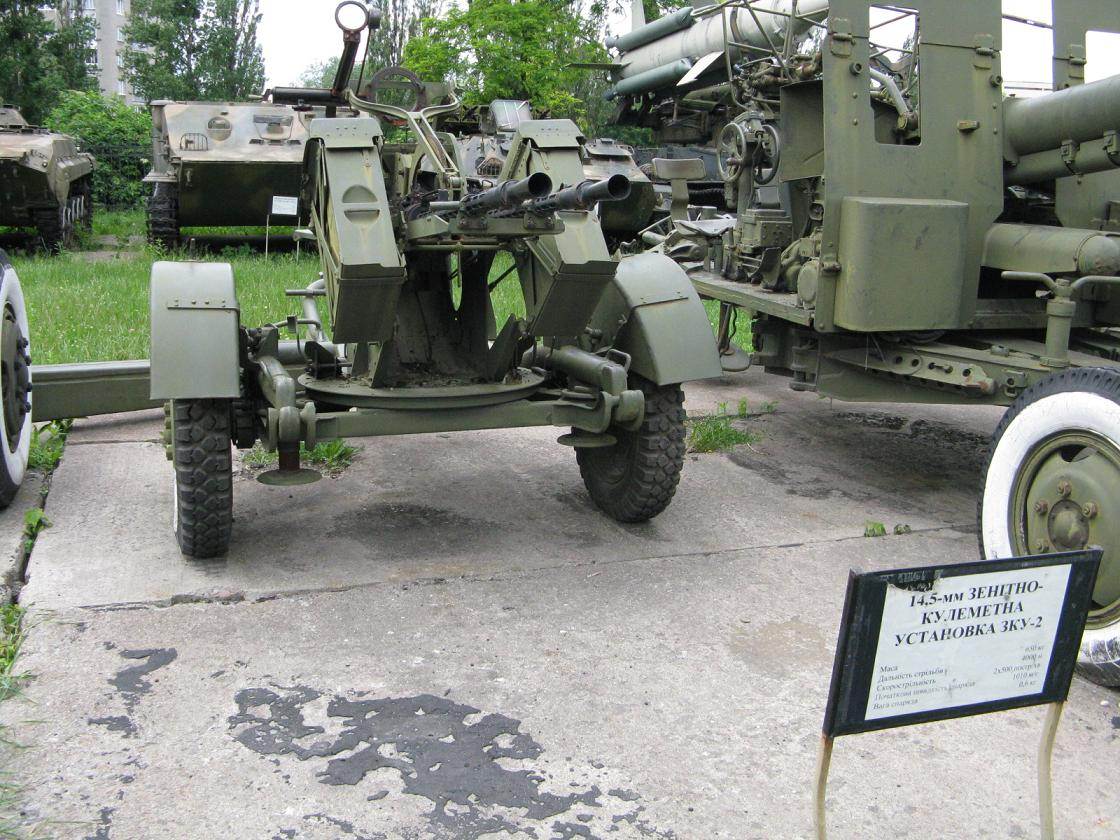 ZPU-2, Lutsk, Volynskiy regional museum of Ukrainian army